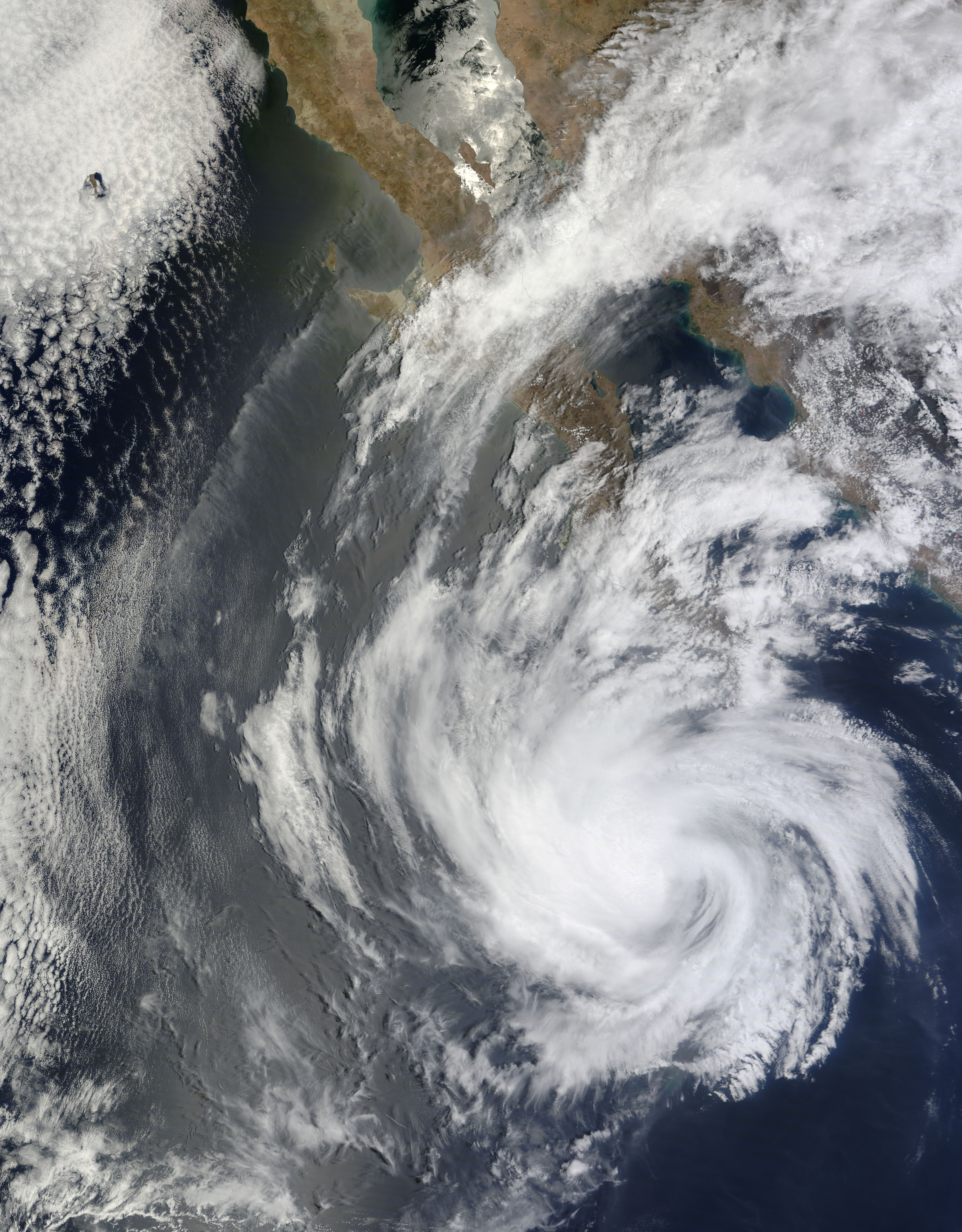 Tropical Storm Blanca approaching Baja California peninsula on June 7, 2015.